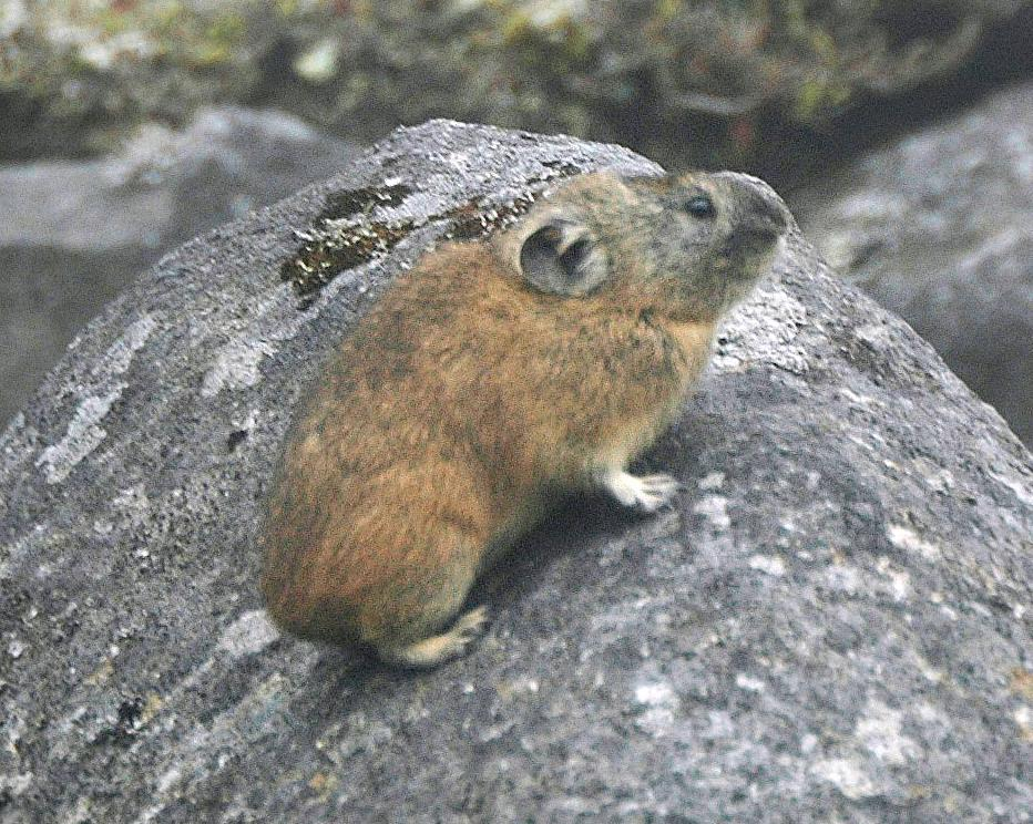 Ochotona Hyperborea yesoensis, Shikaoi, Hokkaido, Japan.